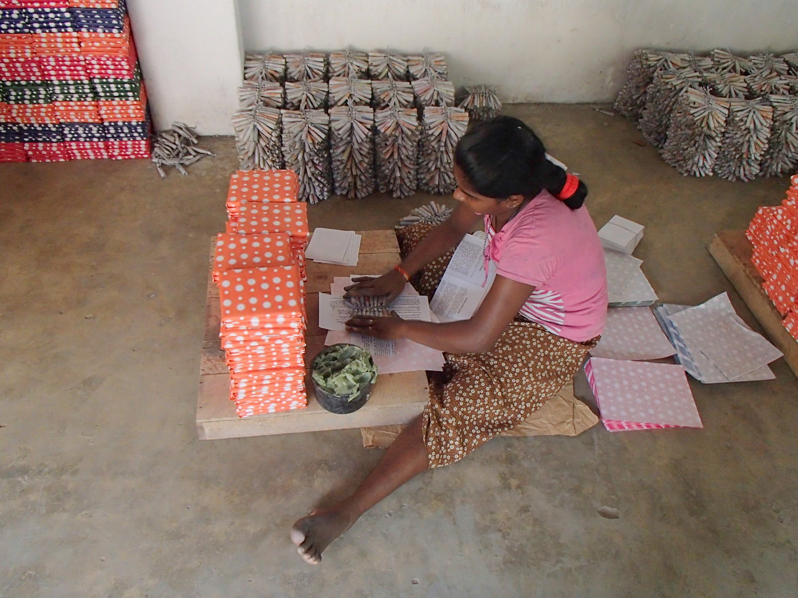 Woman packin fireworks in a fireworkfactory in Sri Lanka